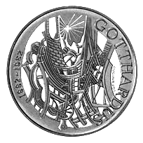 Swiss Commemorative Coin 1982 CHF 5 obverse